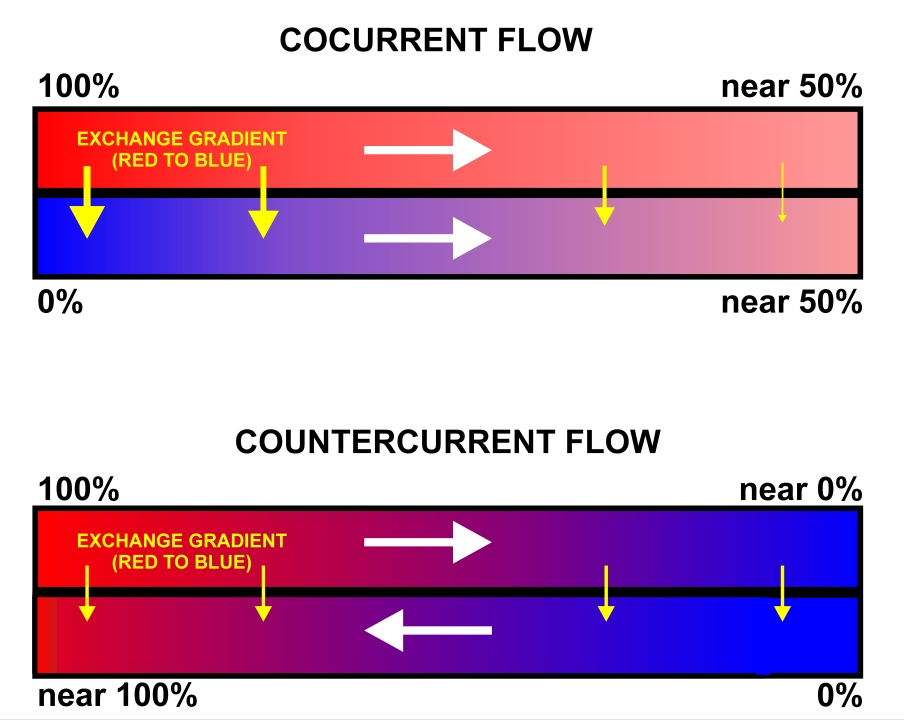 A comparison between the operations and effects of a concurrent and a countercurrent flow exchange systems are depicted by the two diagrams. In both it is assumed (and indicated) that red has a higher value (e.g. of temperature) than blue and the property being transported in the channels therefore flows from red to blue. It is important to note that channels need to be contiguous for effective exchange to occur (i.e. there can be no gap between the channels).